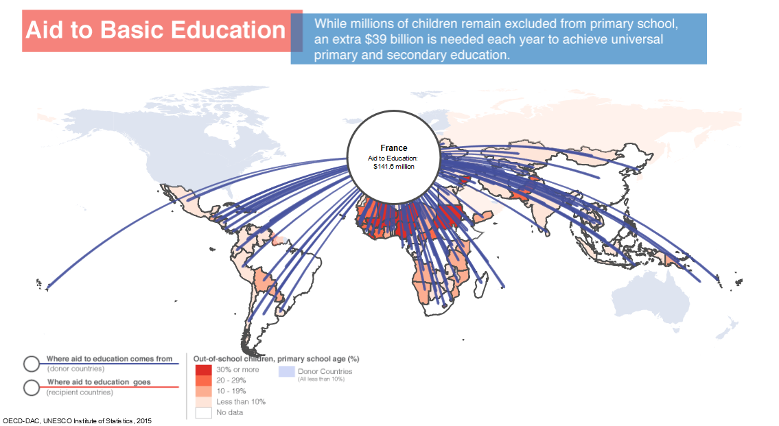 Aid to Basic Education. While millions of children remain excluded from primary school, an extra $39 billion is needed each year to achieve universal primary and secondary education.